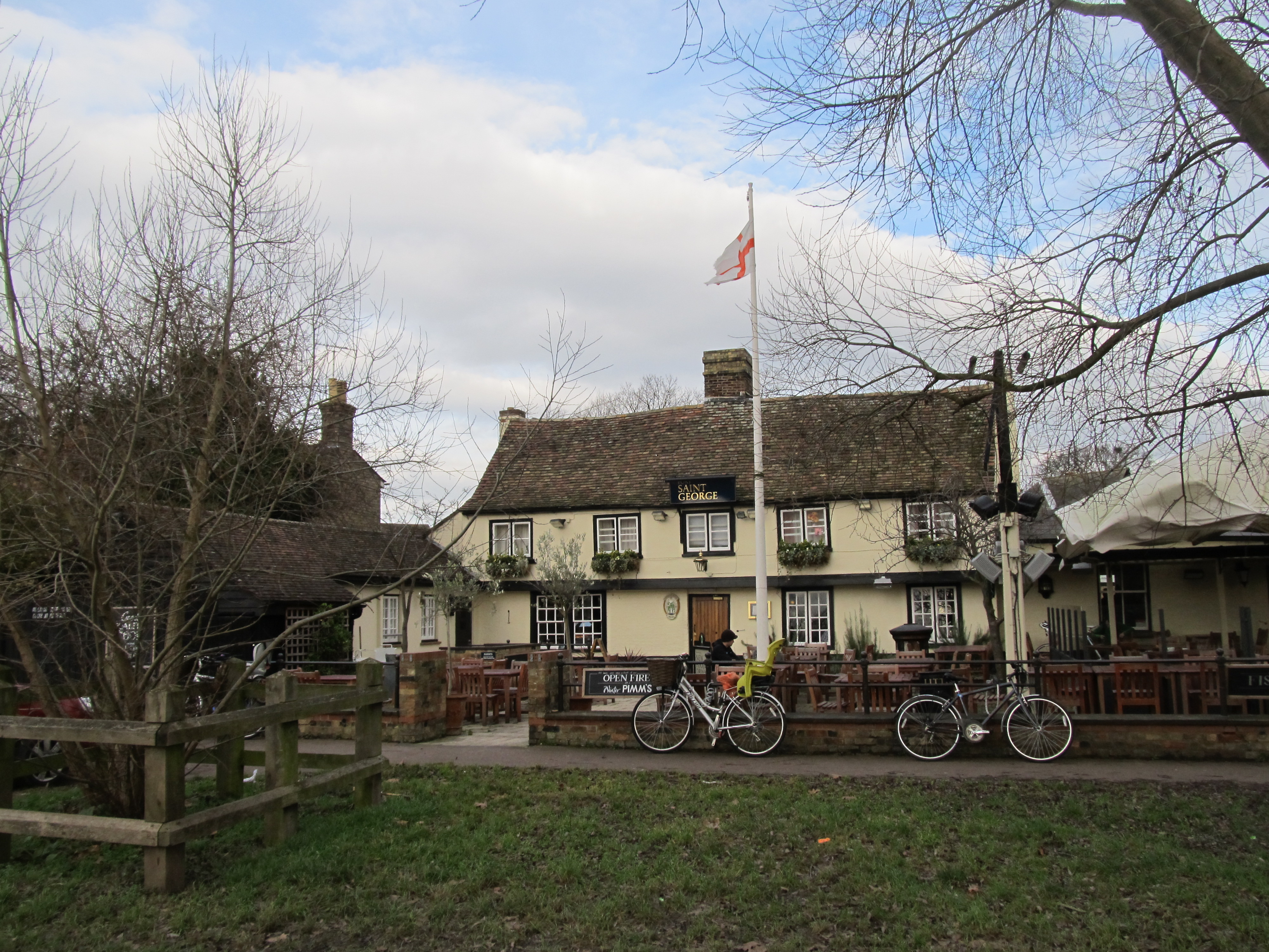 Fort St George In England public house, Cambridge, UK